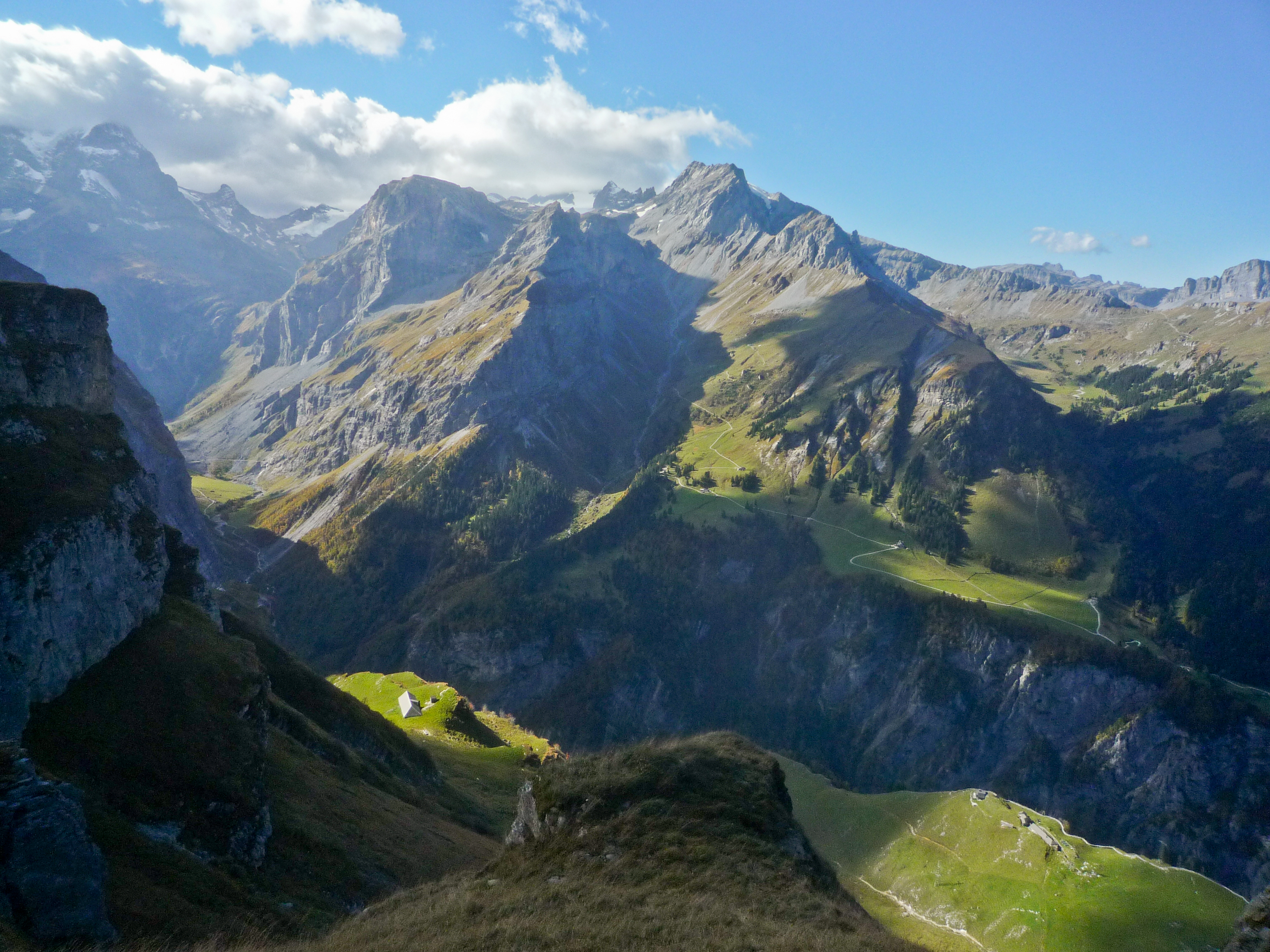 Five grazing areas ("alps") behind Linthal (Glarus) each in individual sunshine-spots - note that the closer alps seem to be lower but are actually higher as they are closer to the point of the photographer - well above them